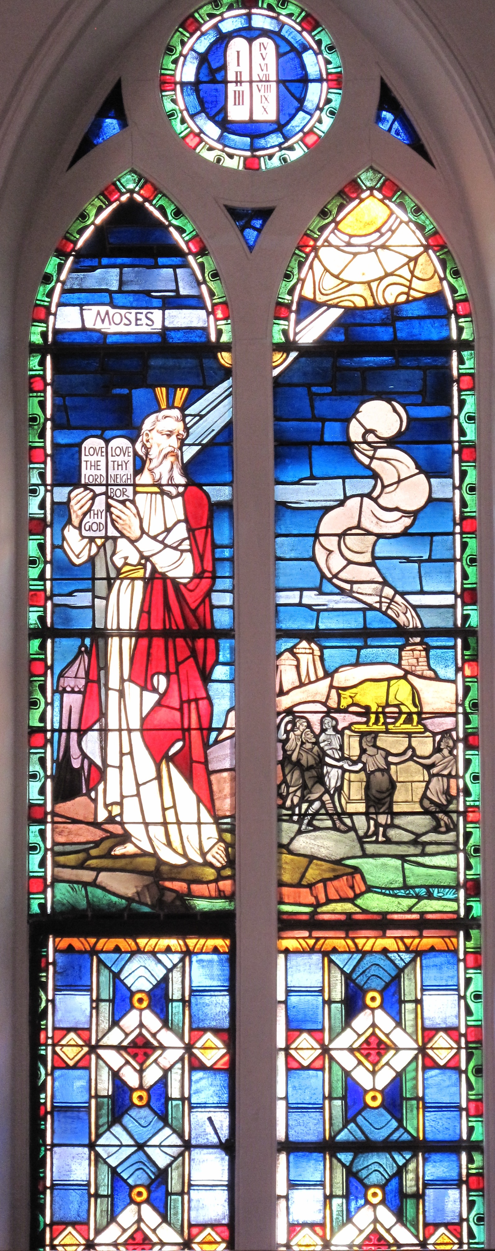 The Moses stained glass window at St. Matthew's German Evangelical Lutheran Church in Charleston, SC. Franz Mayer & Co. of Munich, Germany represented by the studios of George L. Payne of Patterson, New Jersey 1966.